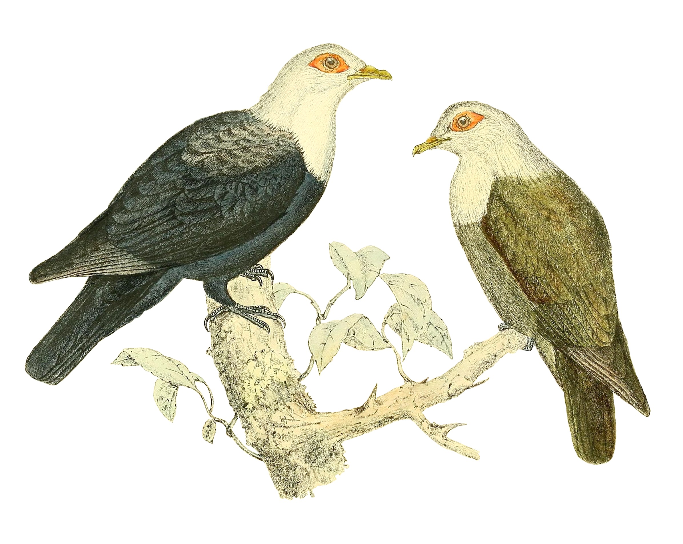 Ptilopus sganzini = Alectroenas sganzini (Comoros Blue Pigeon)